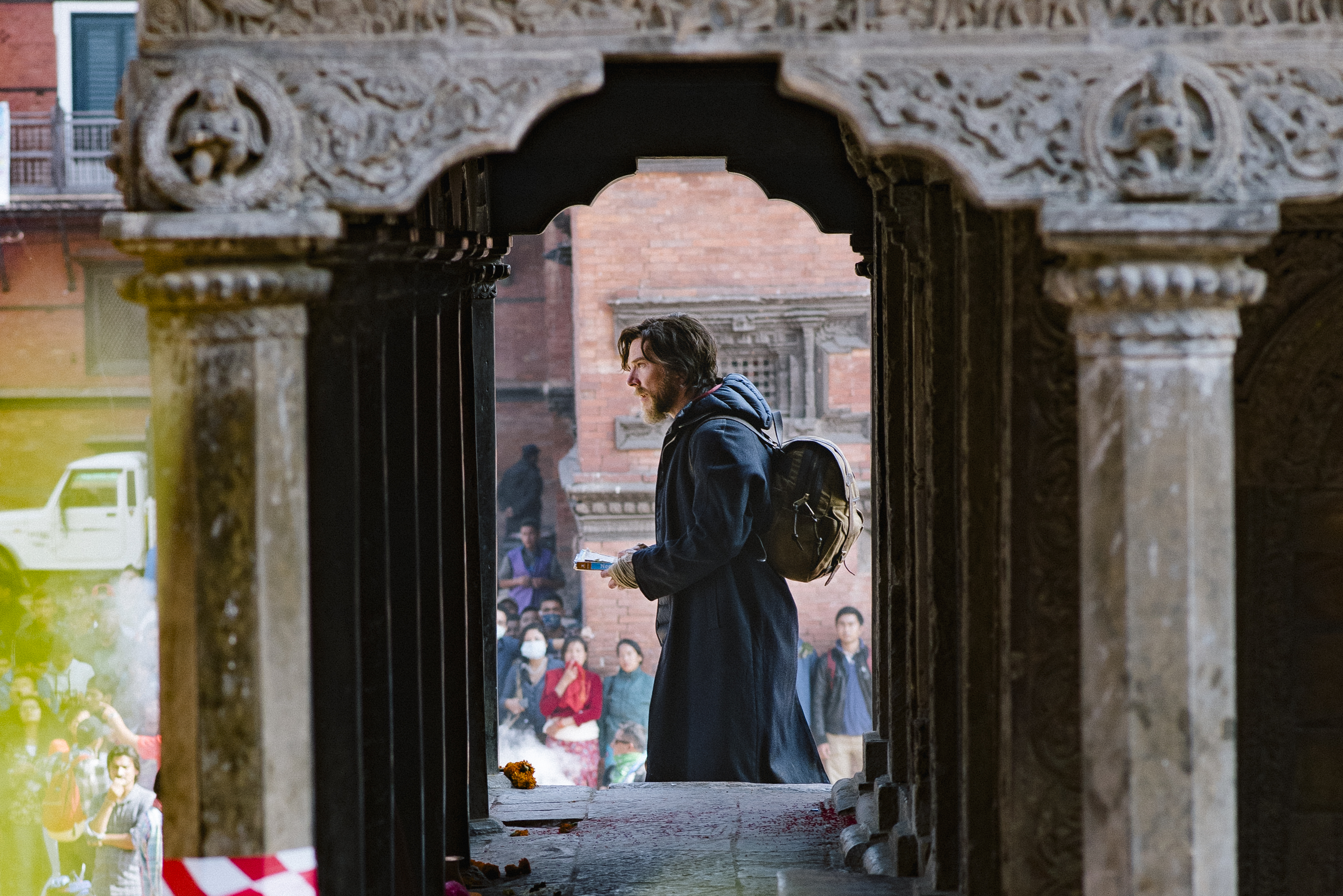 Benedict Cumberbatch in Kathmandu on the set of Doctor Strange.